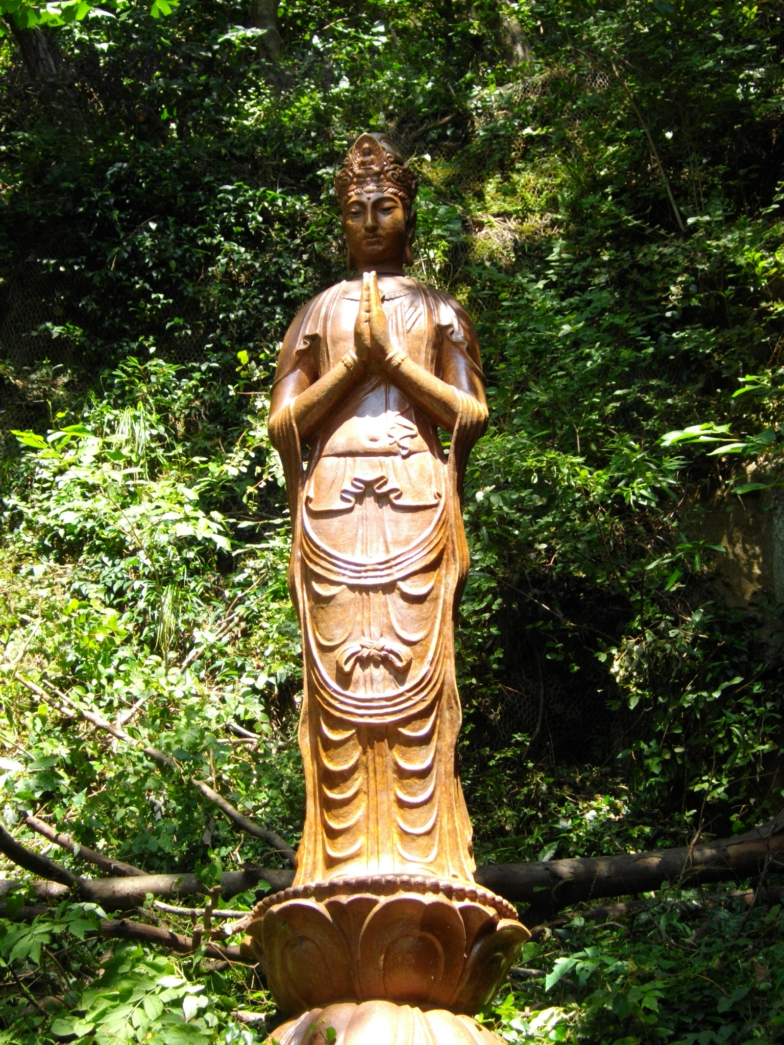 Koa Kannon